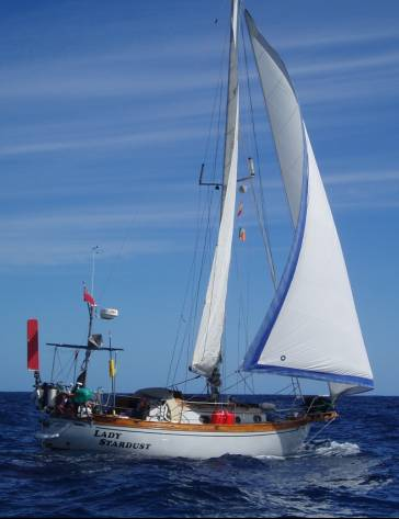 Lady Stardust